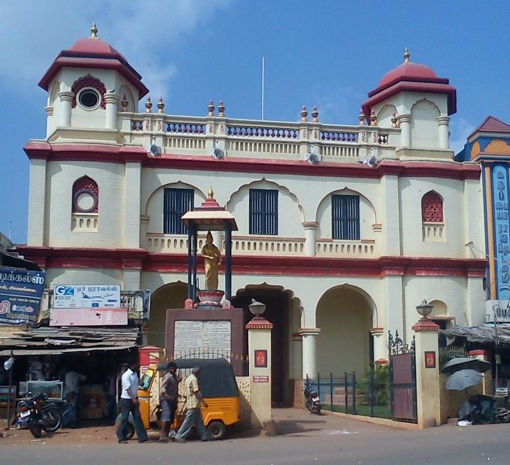 This is one of important landmark in Sivagangai. This is house of Sivagangai Seemai King